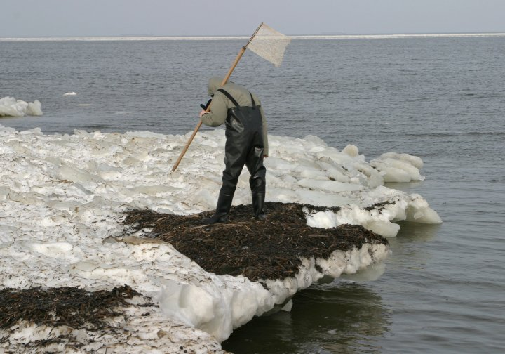 Amber fisher on a Baltic Sea coast close to Gdansk (Poland)